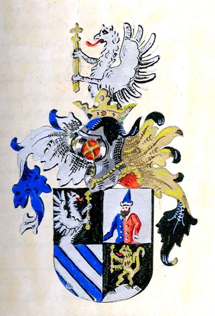 Coats of arms of the Wacker of Wackenfels family - Coloured drawing ( around 1890 ) by Ernst Count Sprinzenstein ( Family archives Sprinzenstein